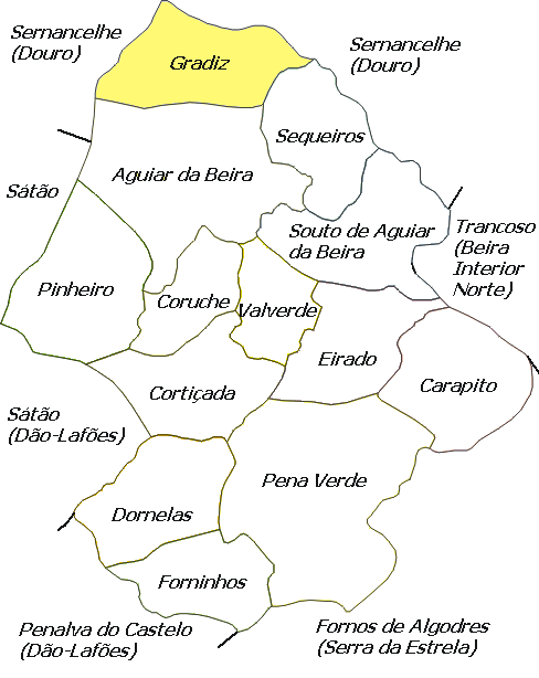 Map of Gradiz parish in Portugal. Author: Kullanıcı:Mskyrider.